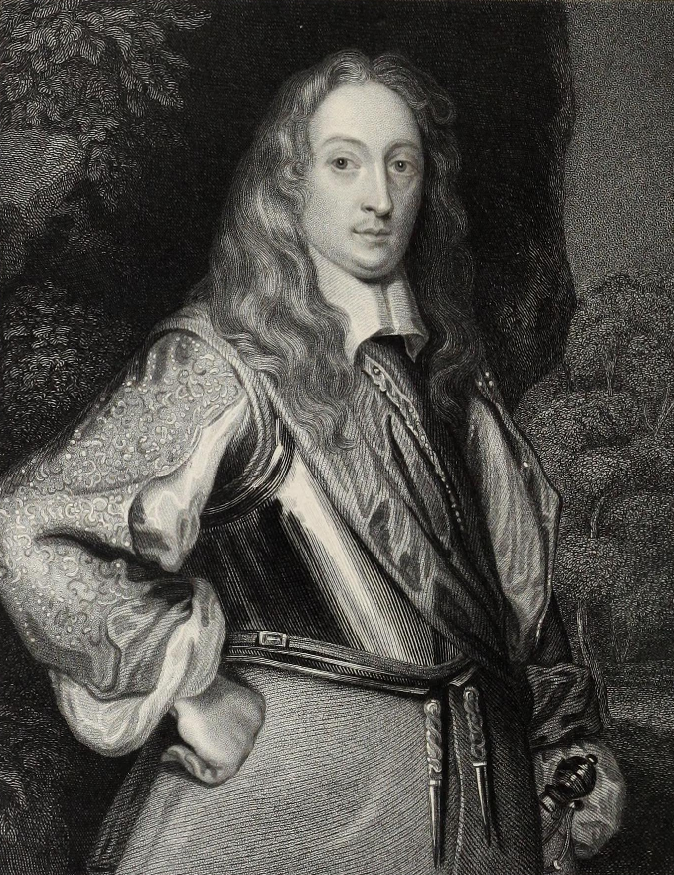 Robert Greville, 2nd Baron Brooke[1] (May 1607 – 2 March 1643[2])